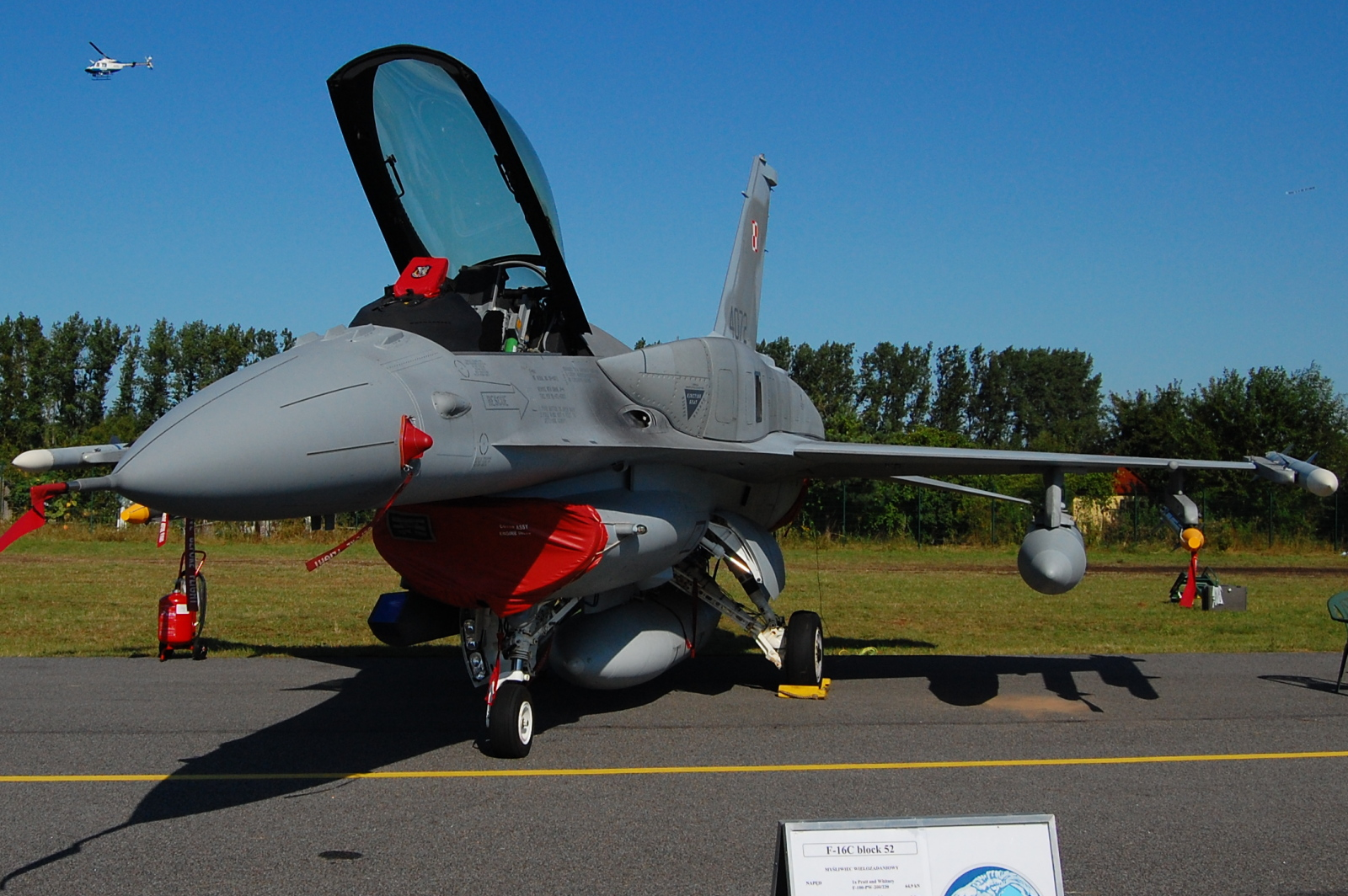 F-16 Jastrząb (Hawk) of Polish Air Force at static display during Radom Air Show 2009. Bell 206 of Polish police in the background.